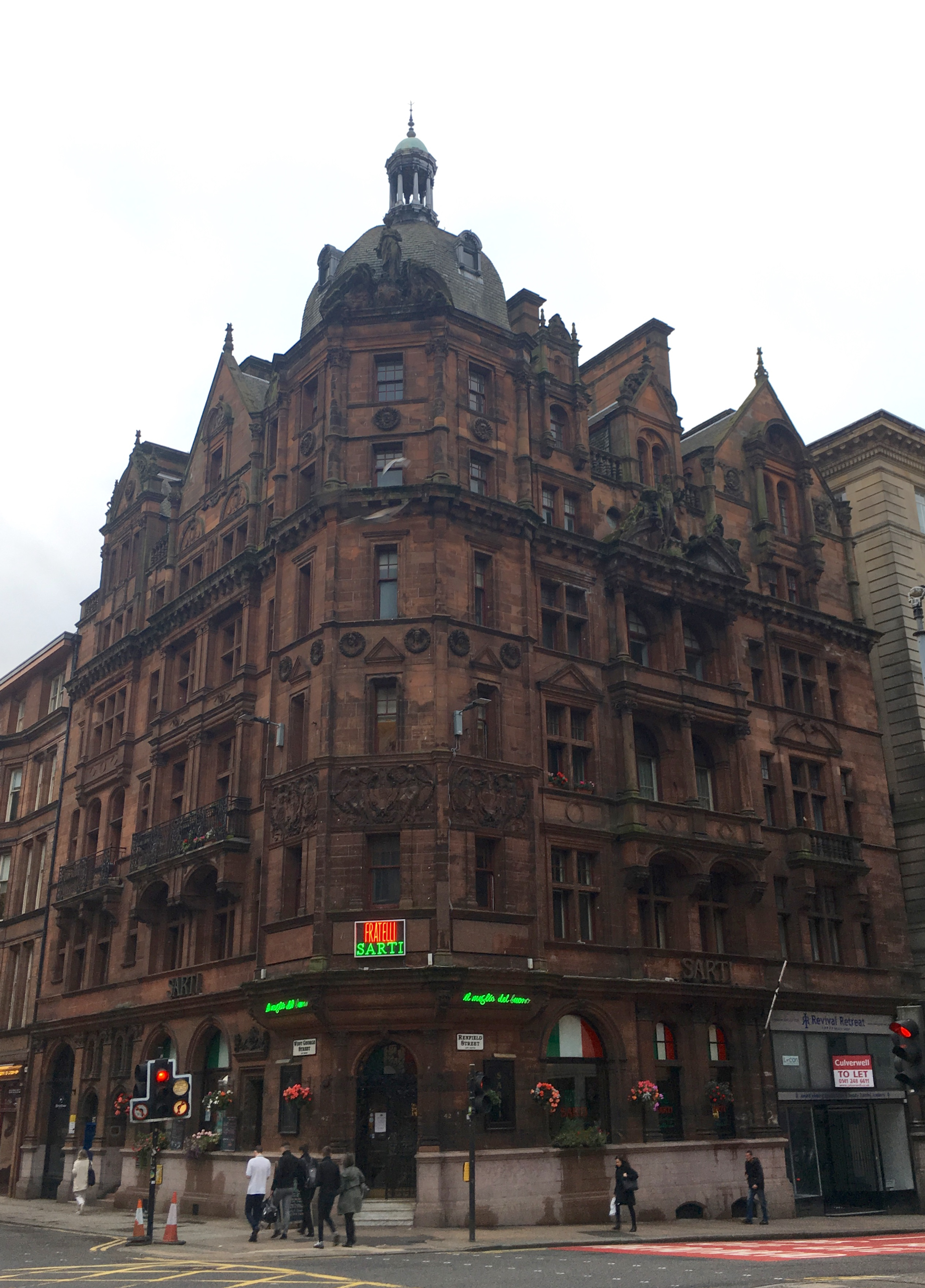 Sun Life Building Wikidata has entry Q17568671 with data related to this item.